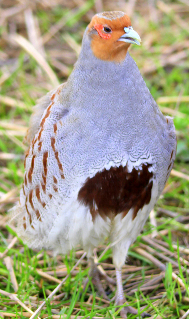 Grey Partridge Perdix perdix, at Turvey, Dublin, Ireland